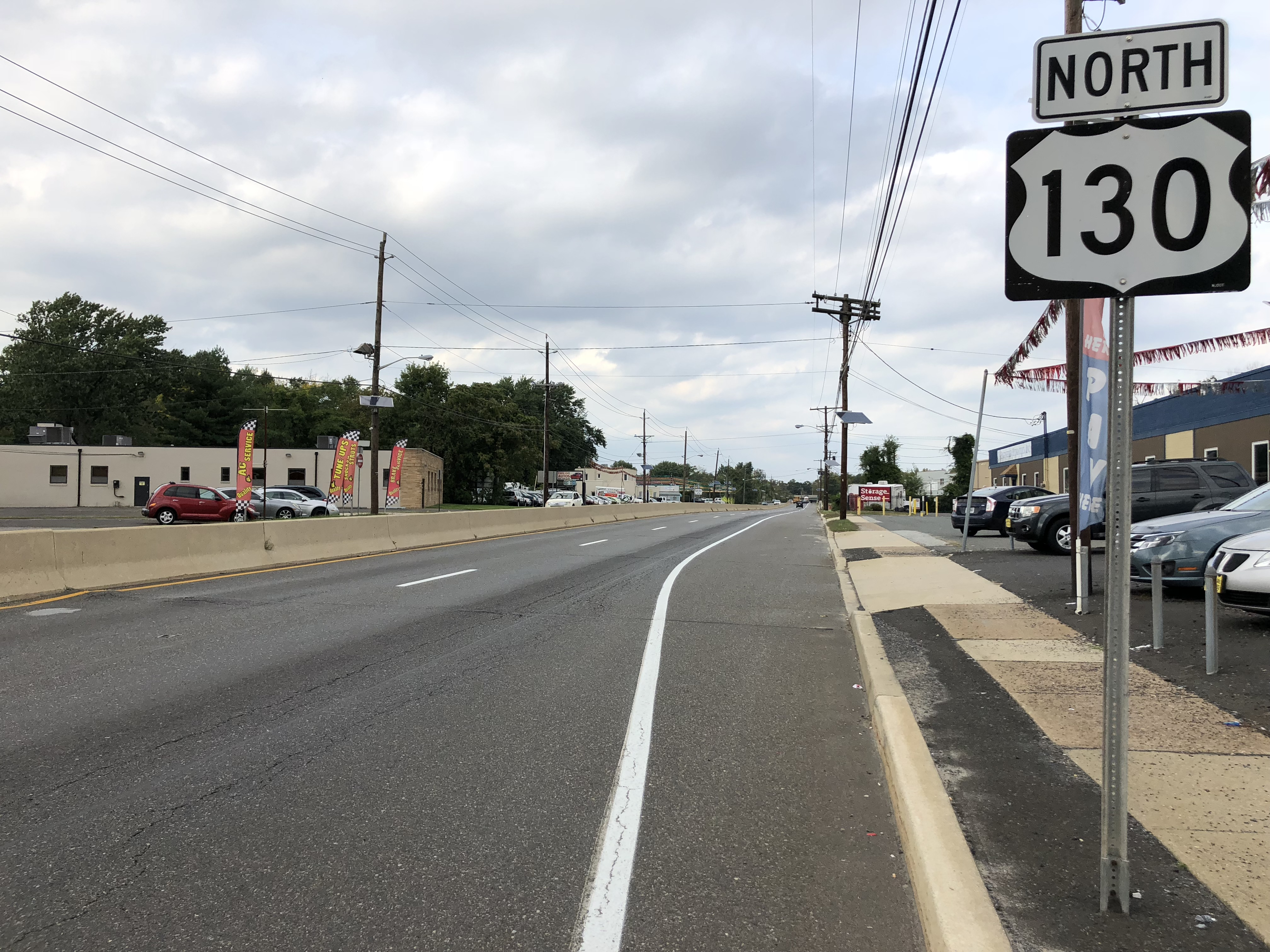 View north along U.S. Route 130 (Crescent Boulevard) just north of Camden County Route 635 (Nicholson Road) in Haddon Township, Camden County, New Jersey